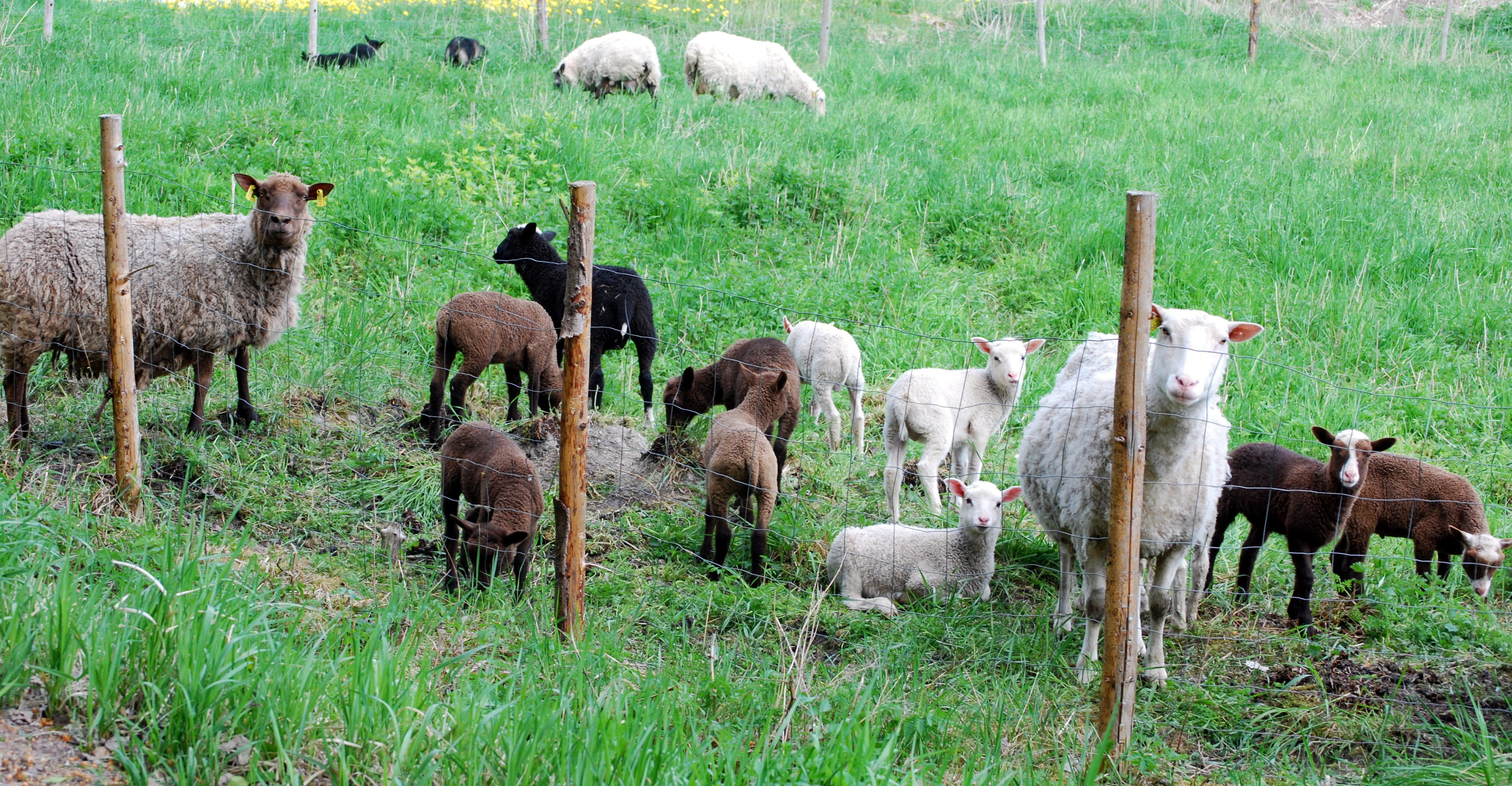 Finnsheep ewes and lambs in Finland.